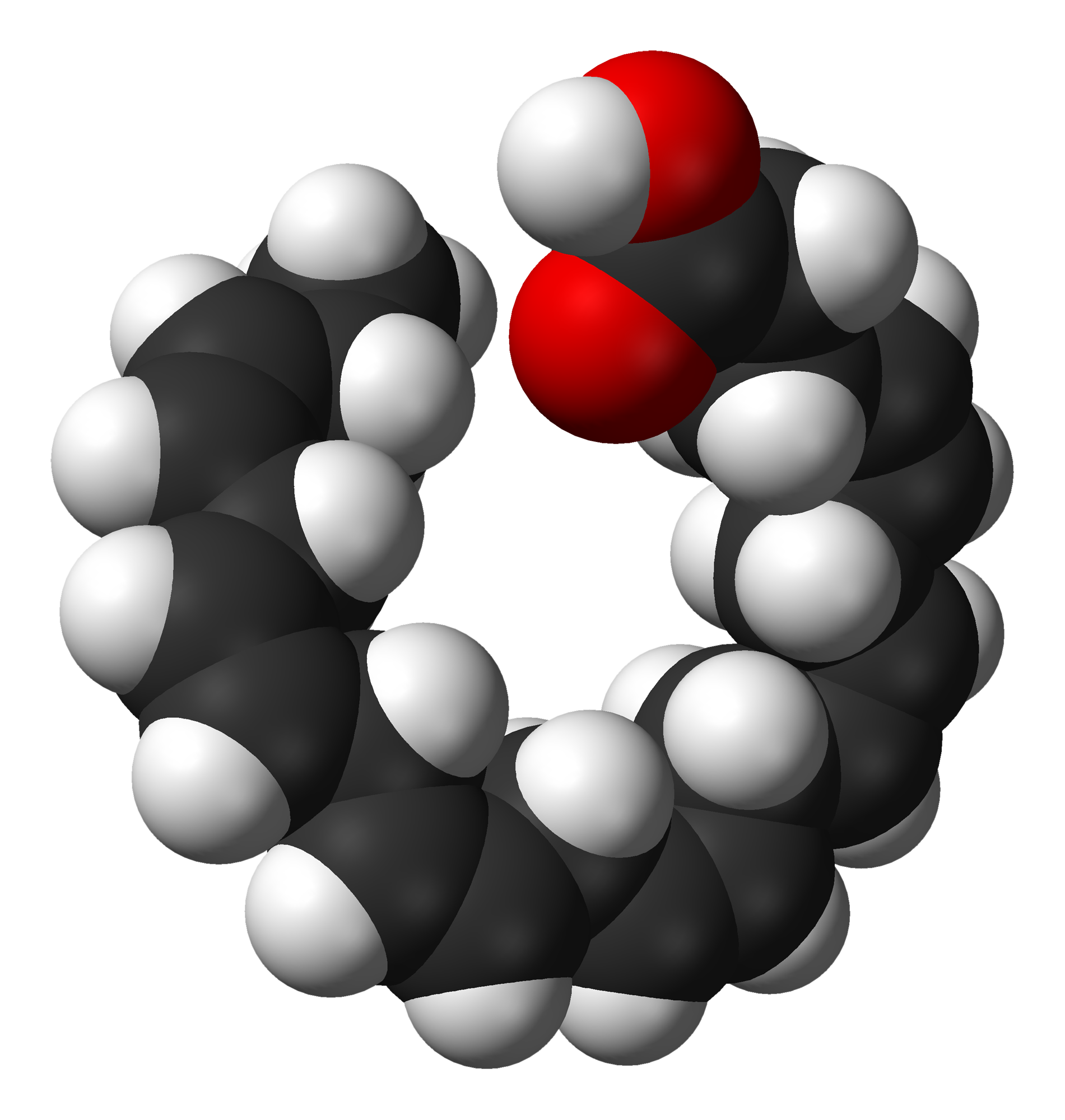 Space-filling model of the docosahexaenoic acid molecule, C22H32O2. Colour code: Carbon, C: grey-black Hydrogen, H: white Oxygen, O: red Structure given in, for example, M. G. Jakobsen, A. Vik, T. V. Hansen, Tetrahedron Lett. 2012, 53, 5837–5839 Model and image generated in Accelrys DS Visualizer. 二十二碳六烯酸分子 :: en：空间填充模型|空间填充模型 ，C 22 H 32 O 2 。 颜色代码： ： 碳，C：灰黑色 ： 氢，H：白色 ： 氧气，O：红色 例如，MG Jakobsen，A.Vik，TV Hansen，“ Tetrahedron Lett。”，“ 2012” '，``53，5837-5839 在Accelrys DS Visualizer中生成的模型和图像。